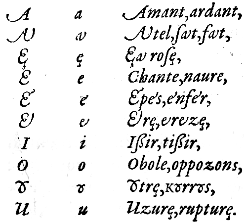 Table with vowels of La Ramée’s French alphabet, from Grammaire (1572).